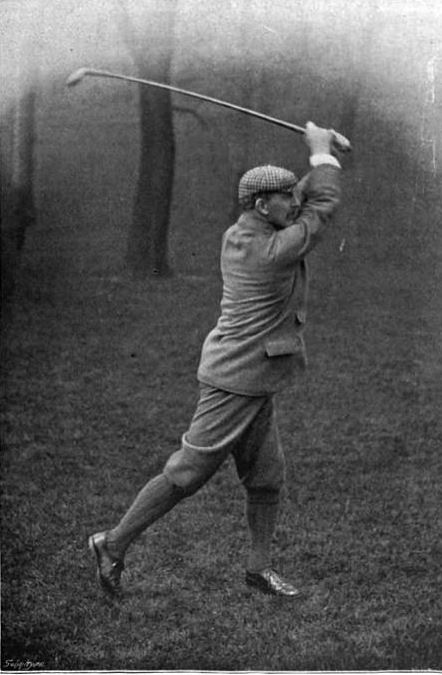 Golfer Leslie Balfour-Melville.)